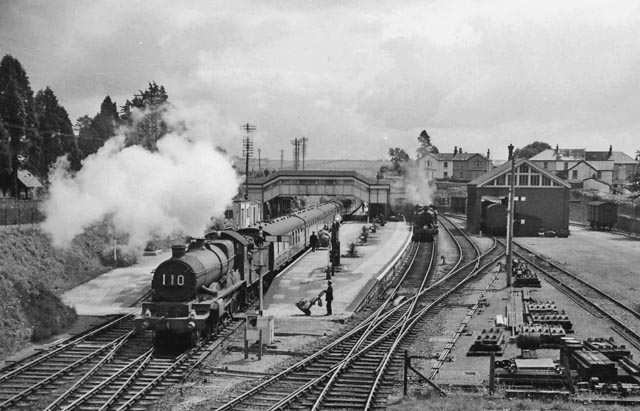 Brent Station, with train. View eastwards, towards Newton Abbot, Exeter etc.; ex-GWR London etc. - Exeter - Plymouth - Penzance main line. Until 16/9/63, Brent was the junction for the branch to Kingsbridge; Brent was closed on 5/10/64. Here in 1958 it was still active: leaving for Penzance is the 05.20 express from Paddington, headed by a 'Castle' 4-6-0; in the bay is a 2-6-2T.